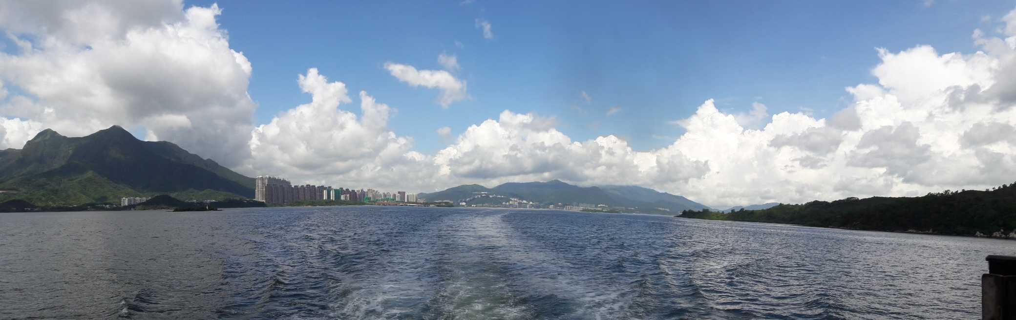 The Tolo Harbour taken in a boat towards the general direction of Tung Ping Chau. 中文（香港）: 吐露港以及赤門海峽，沙田方向。